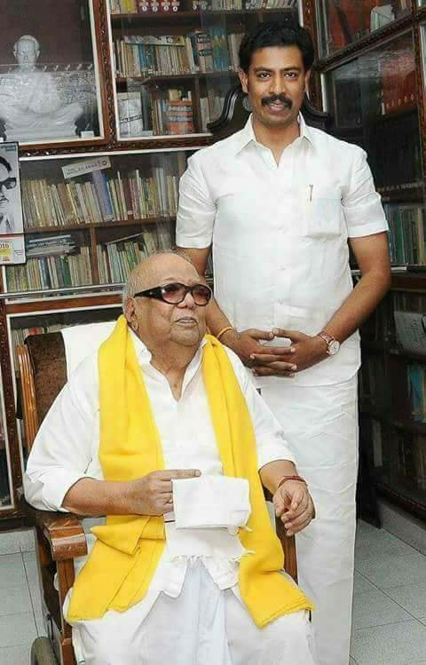 I.P Senthil Kumar with DMK party leader and former chief minister of tamil nadu DR.Kalaingar Karunanidhi